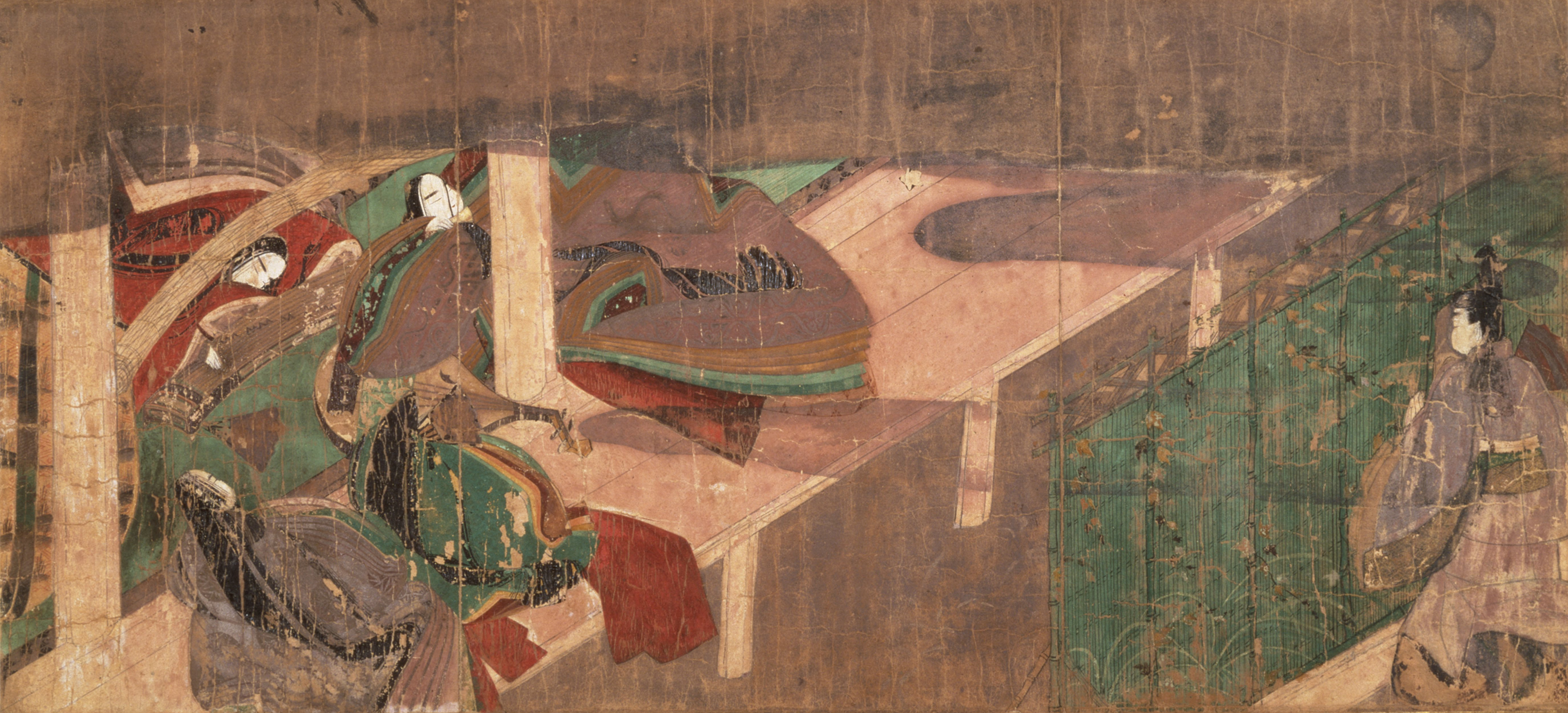 A scene of the Chapter "HASHIHIME "(Bridge Princess) of Illustrated handscroll of Tale of Genji (written by MURASAKI SHIKIBU(11th cent.). The handscroll was made in about ACE1130 and stored in TOKUGAWA Museum, Japan. The handscroll were separated to each sections and mounted to frame for conservation.